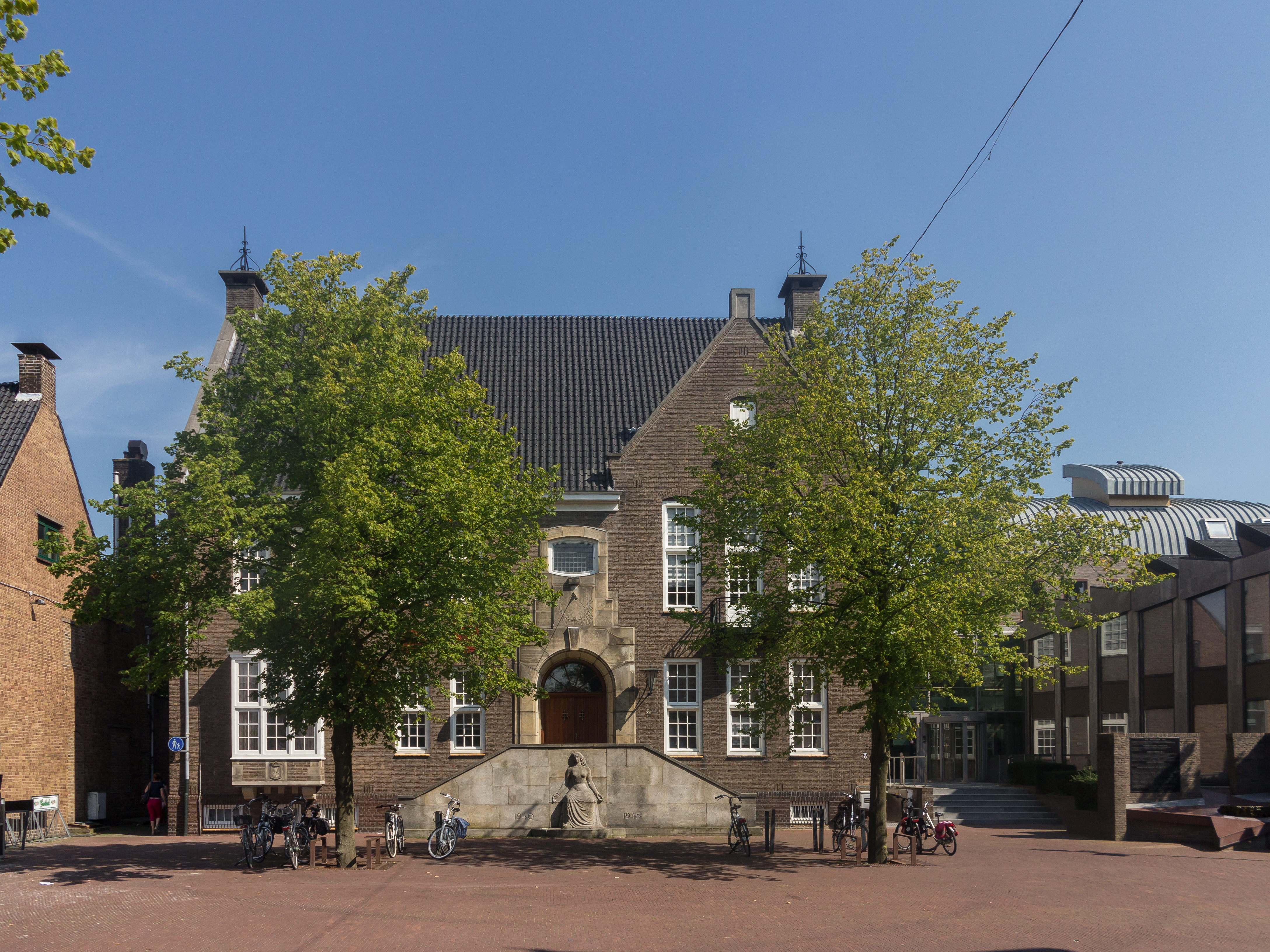 Haaksbergen, townhall